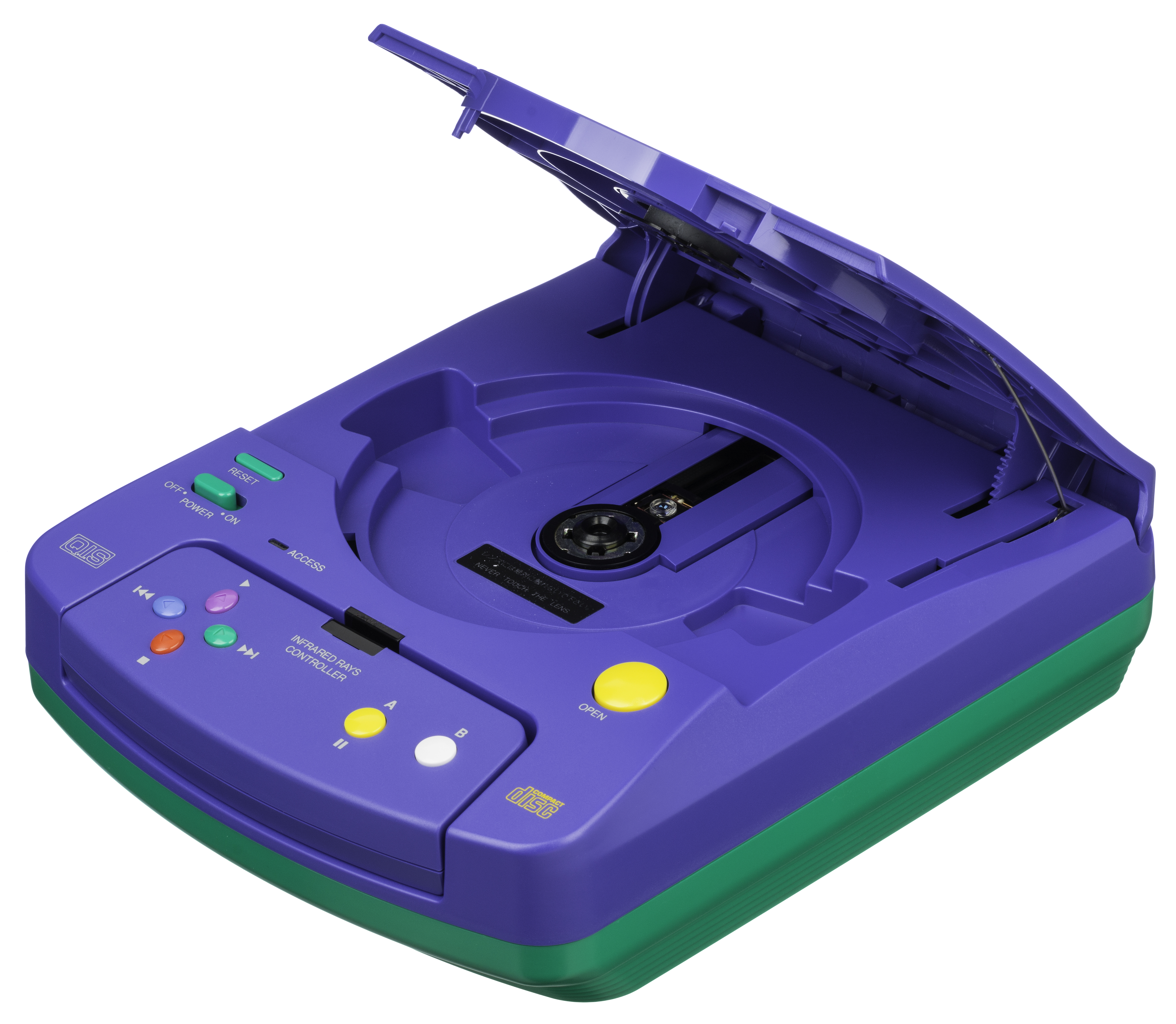 The Bandai Playdia, a video game console that was only released in Japan. The Playdia came out in 1994 and was intended for a young audience. It has a small library of games mostly comprised of anime-themed edutainment titles.